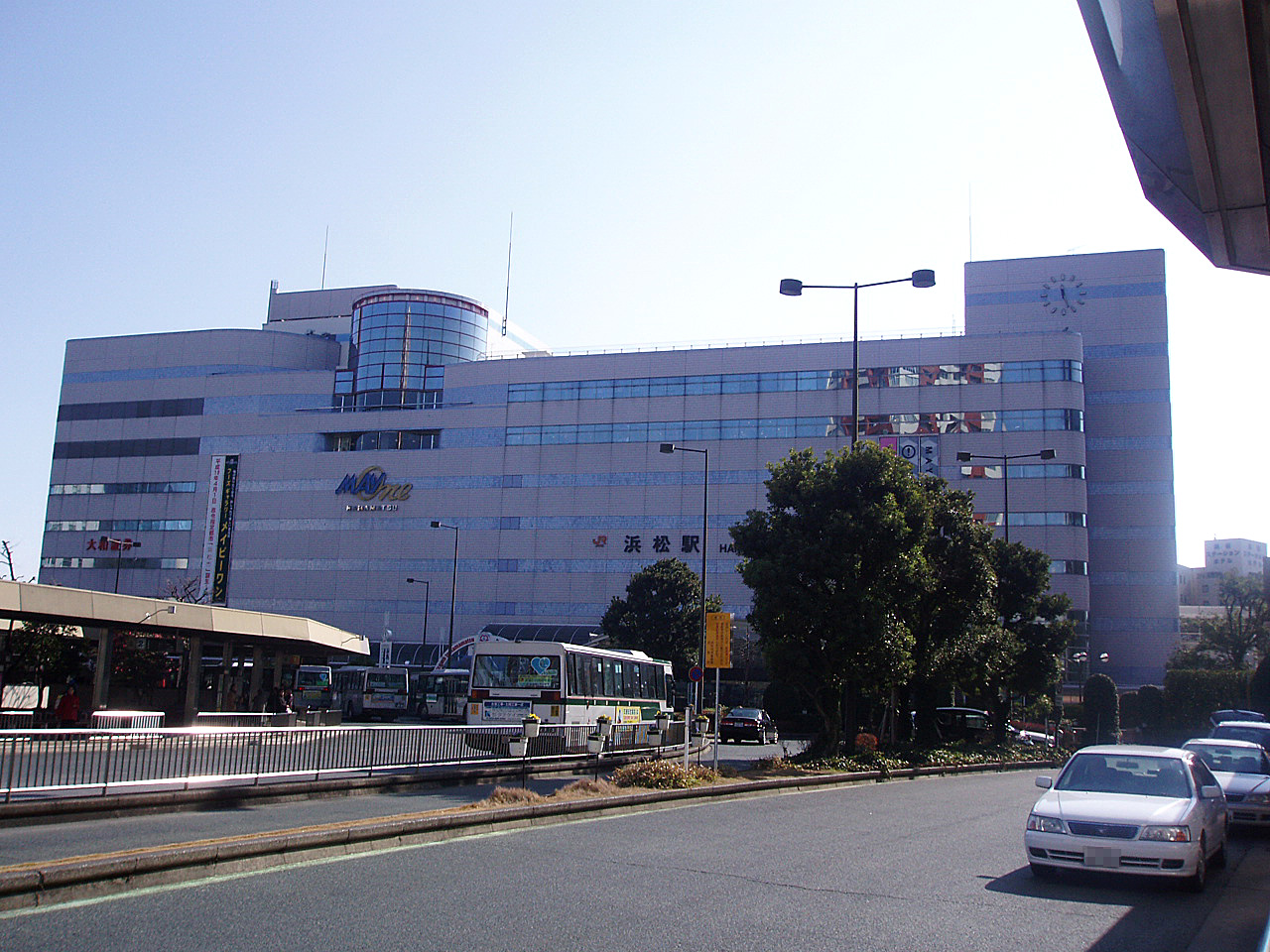 Central Japan Railway Tōkaidō Shinkansen & Tokkaido Main Line Hamamatsu Station North Gate 東海旅客鉄道 東海道新幹線＆東海道本線 浜松駅 北出口